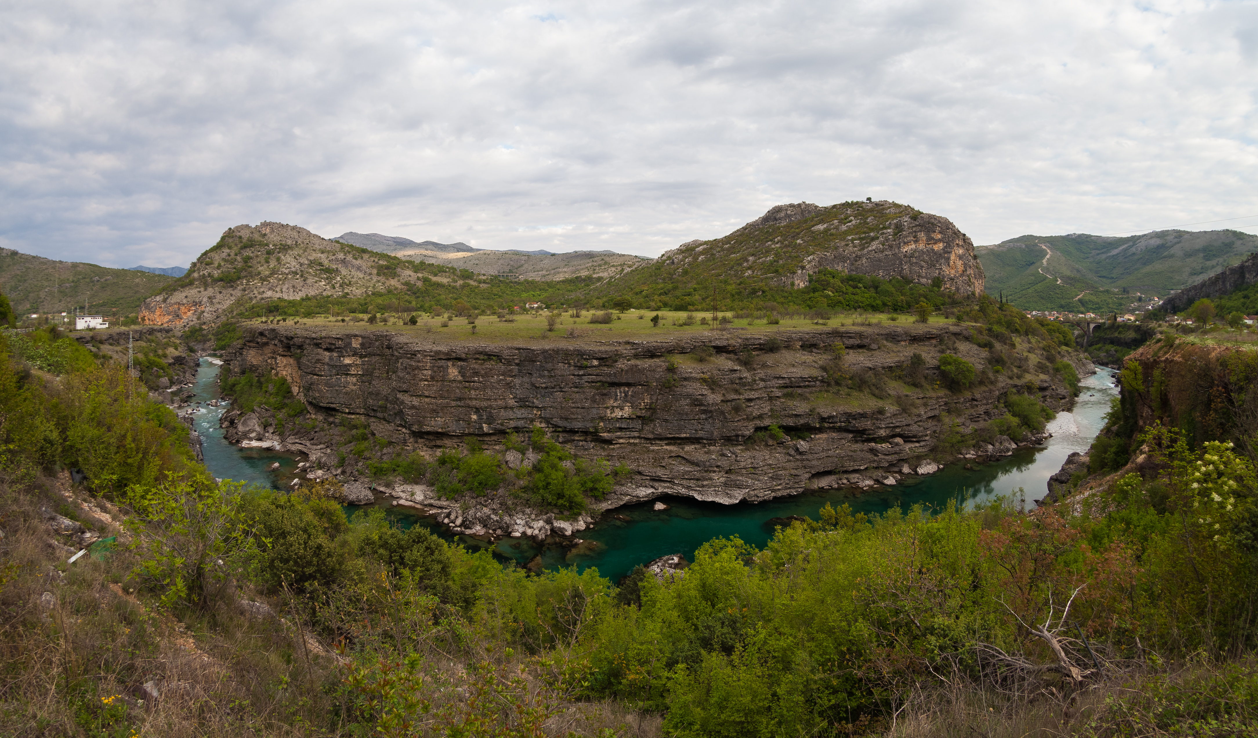 Morača river, near the road from Podgorica to Serbia, Montenegro. The river is the most relevant one in Podgorica, capital of Montenegro.